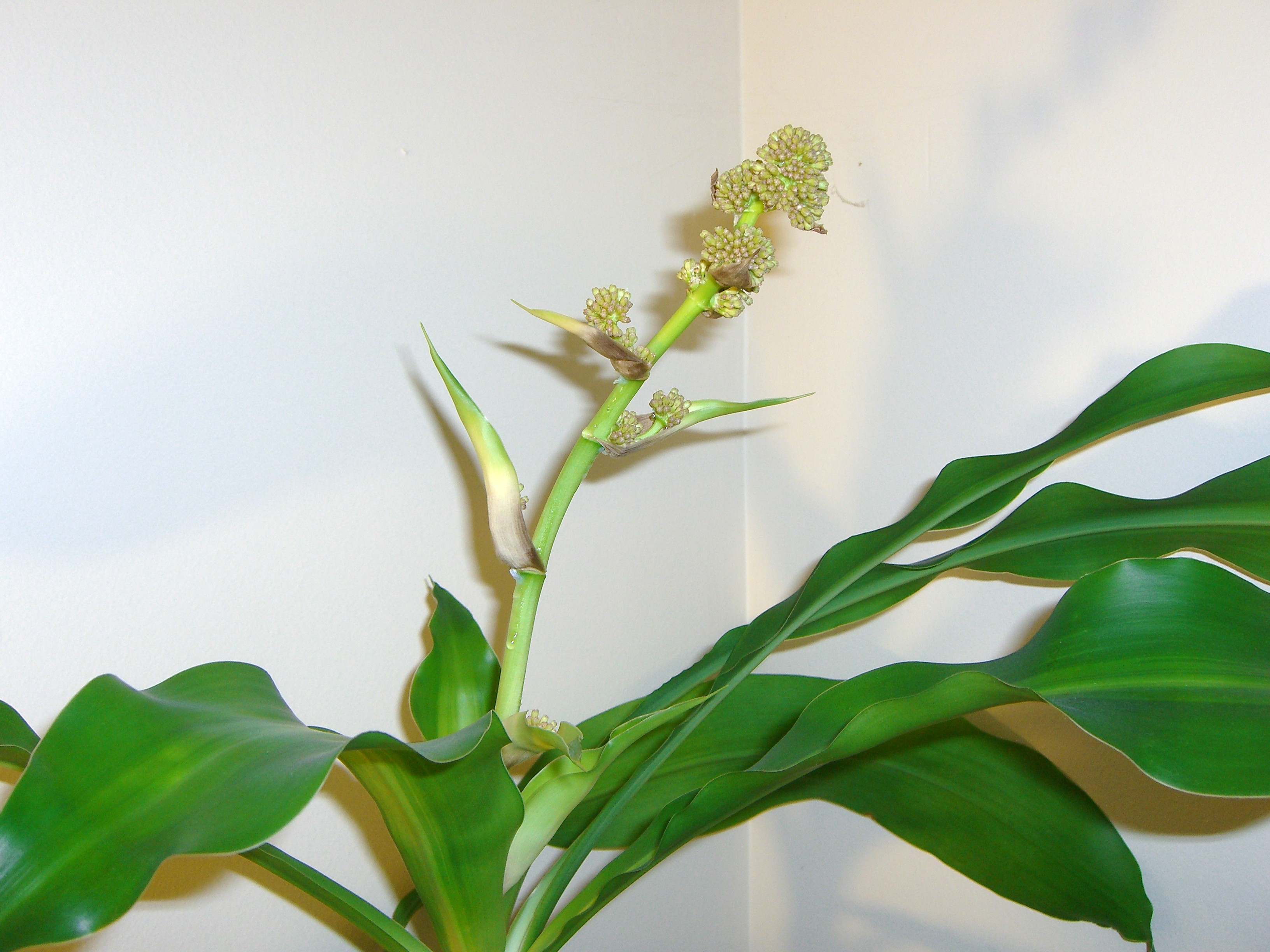 Inflorescence of Dracaena fragrans CV Massangeana, sometimes just called Dracaena Massangeana or commonly, "Corn Plant". It is in the same family as the common culinary asparagus, family Asparagaceae.